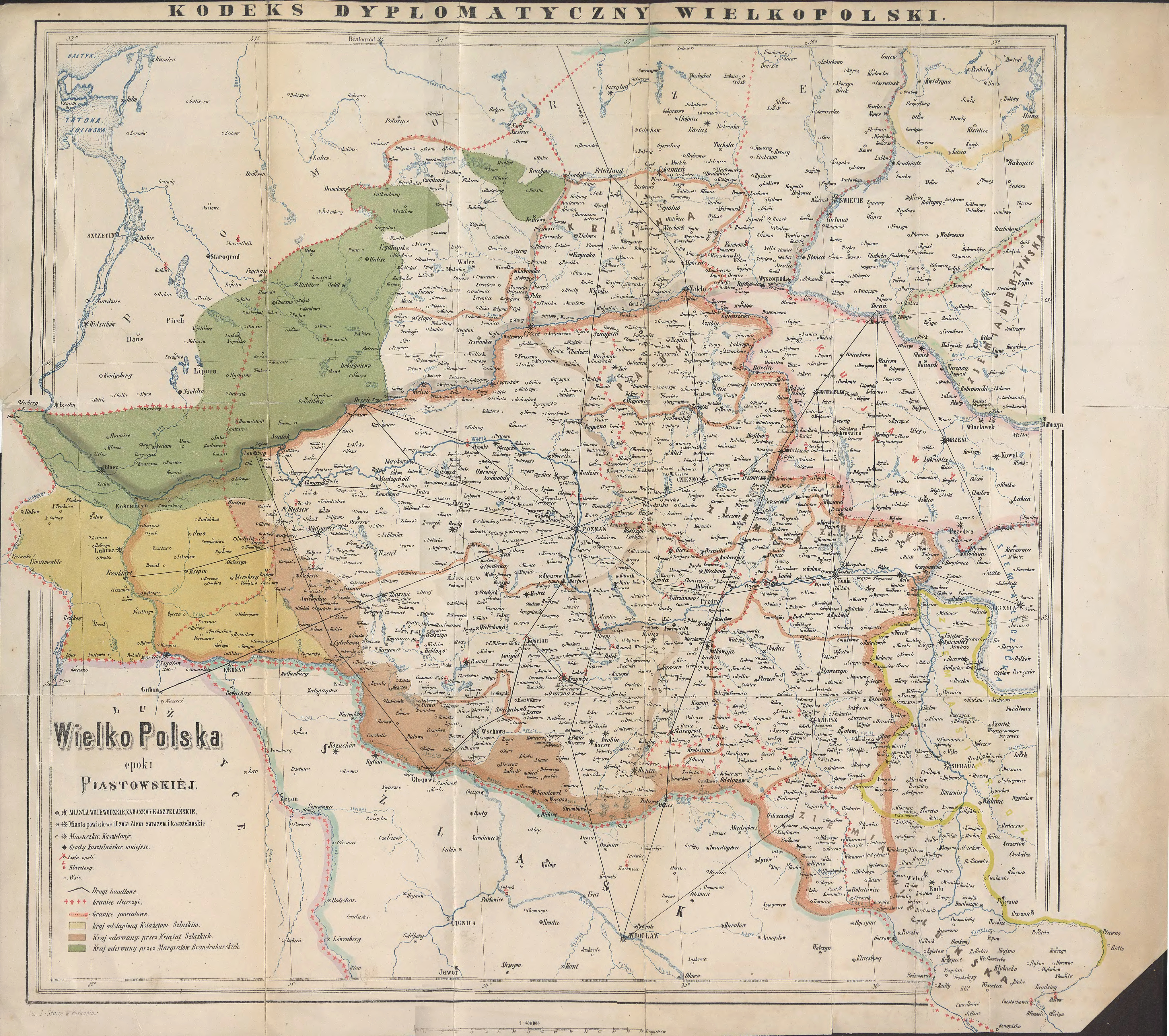 Historical map of Greater Poland (Middle Ages) made by Dr. T. Szulc and included in the 4th volume of Codex diplomaticus Maioris Poloniae